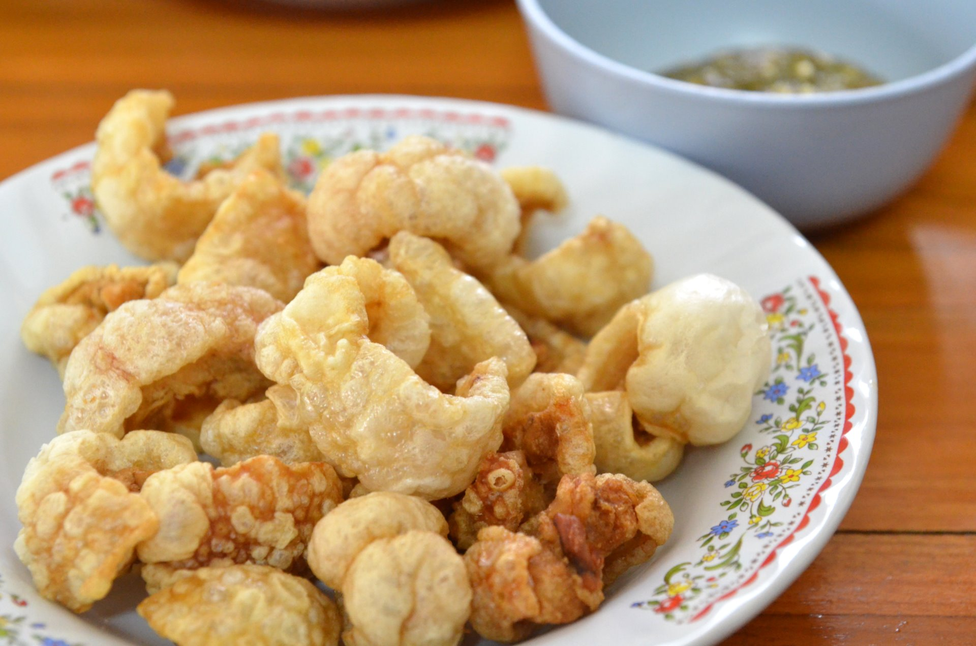 Khaep mu (Thai script: แคบหฺมู) are pork cracklings: deep fried pork skin. Khaep mu eaten with nam phrik num (grilled green chilli dip) from Chiang Mai is renowned in the whole of Thailand.